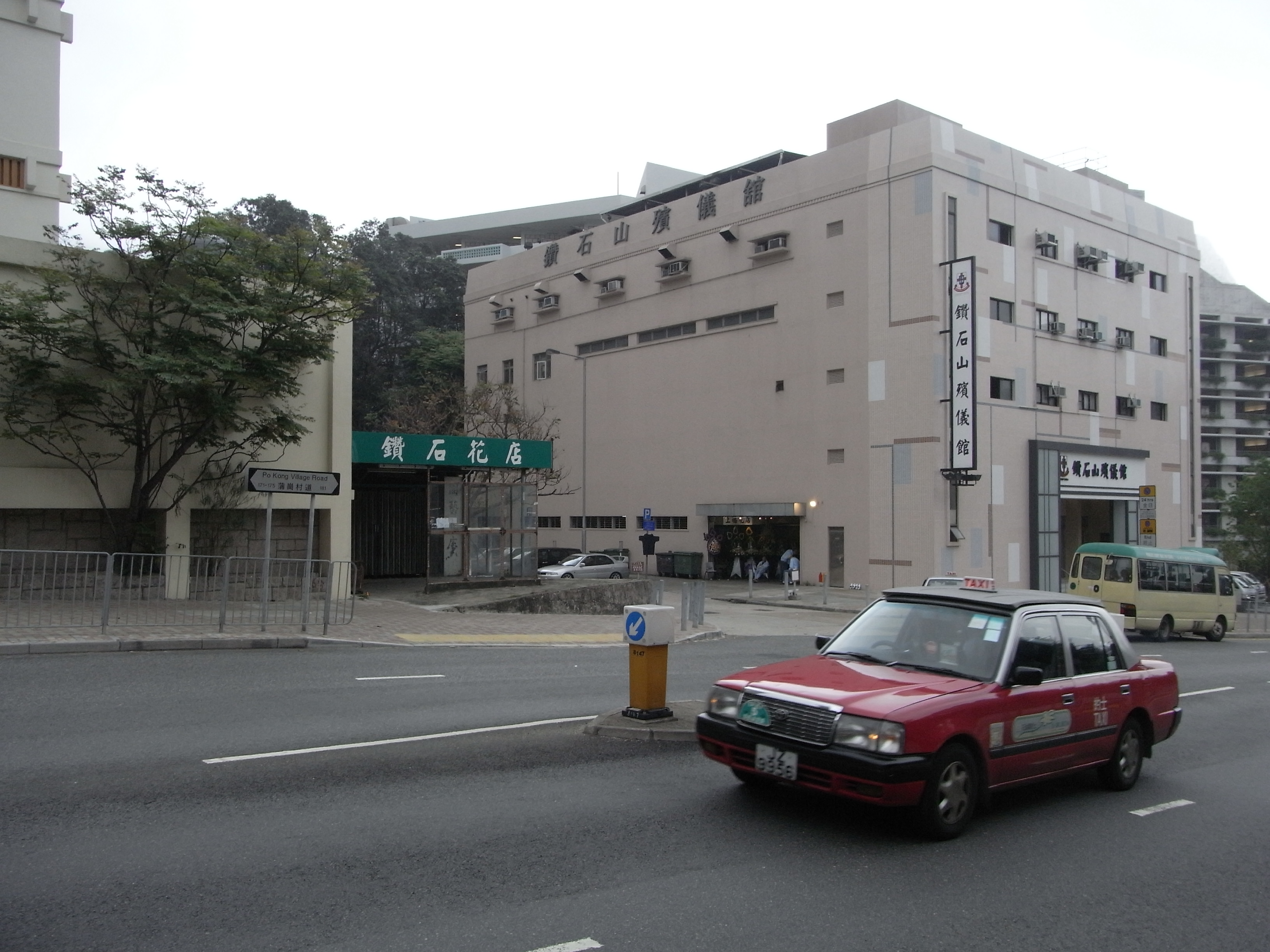 黃大仙區 蒲崗村道 鑽石山殯儀館